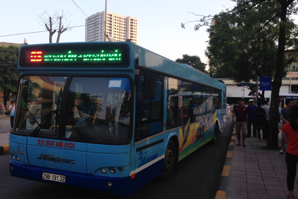 MAZ B80 at Hanoi